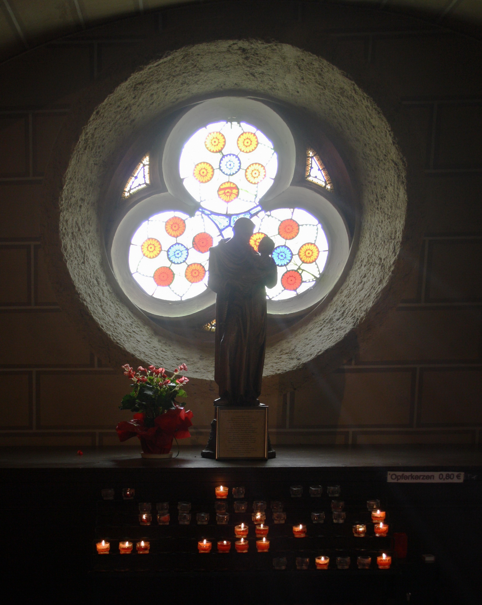 Trefoil window and votive candles in a catholic church in Bad Gastein in Austria